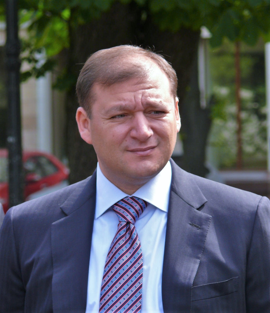 Mykhaylo Dobkin is a Ukrainian politician, the current mayor of Kharkov, former deputy of the The Verkhovna Rada of Ukraine.